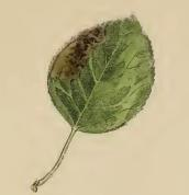 Stainton’s Natural History of the Tineina (1855–1873): Ectoedemia atricollis mined apple leaf